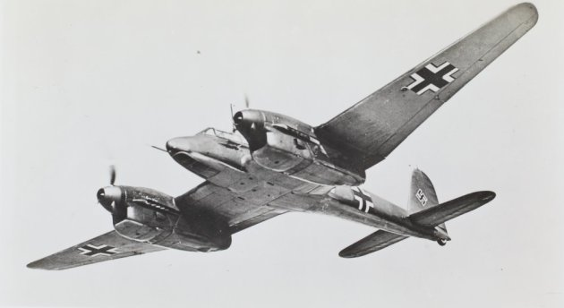 PictionID:38235845 - Catalog:Array - Title:Array - Filename:15_002312.TIF - -------Image from the Charles Daniels Photo Collection.----Album: German Aircraft.-----------PLEASE TAG these images with any information you know about them so that we can permanently store this data with the original image file in our Digital Asset Management System.-----------------SOURCE INSTITUTION: San Diego Air and Space Museum Archive